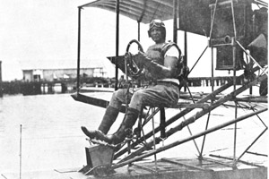 First Lieutenant Alfred A. Cunningham, United States Marine Corps— designated Naval Aviator No. 5 and the first Marine pilot.